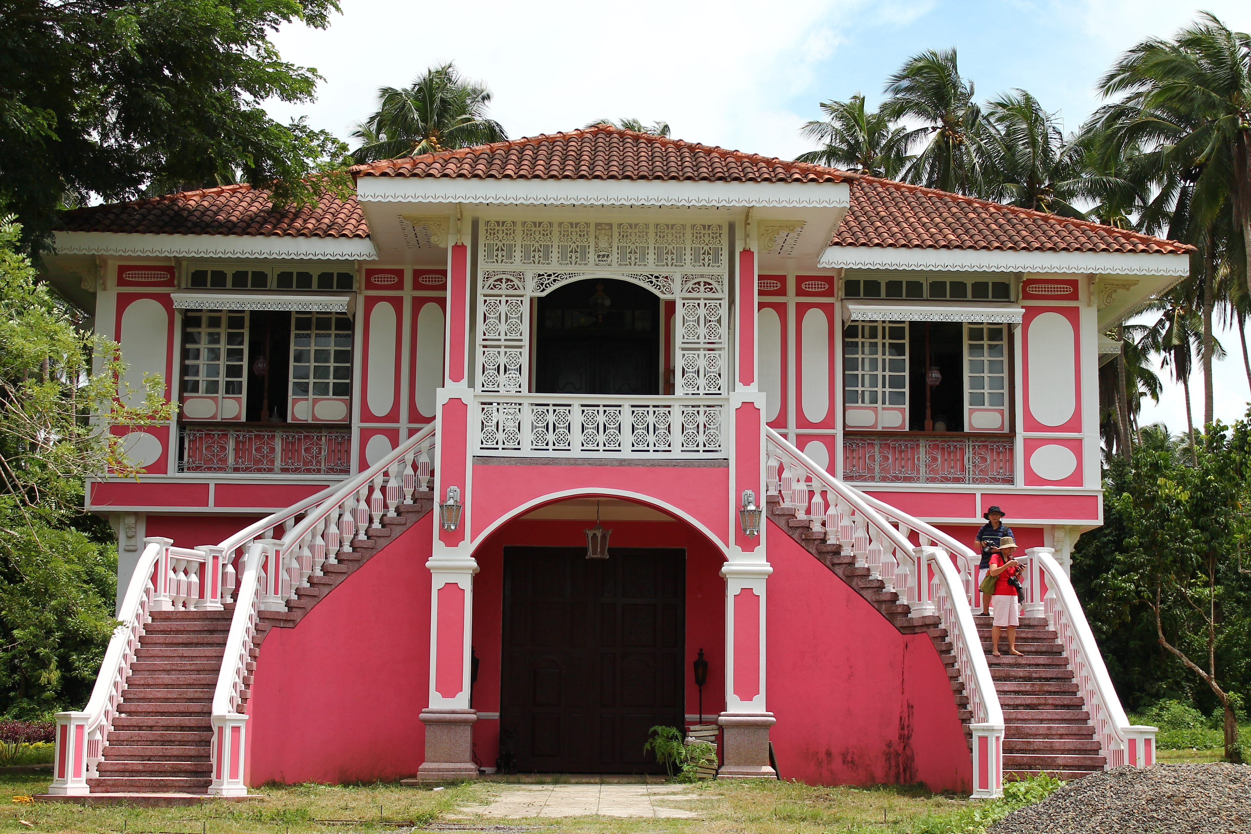 Villa Escudero Plantations and Resort, San Pablo Laguna